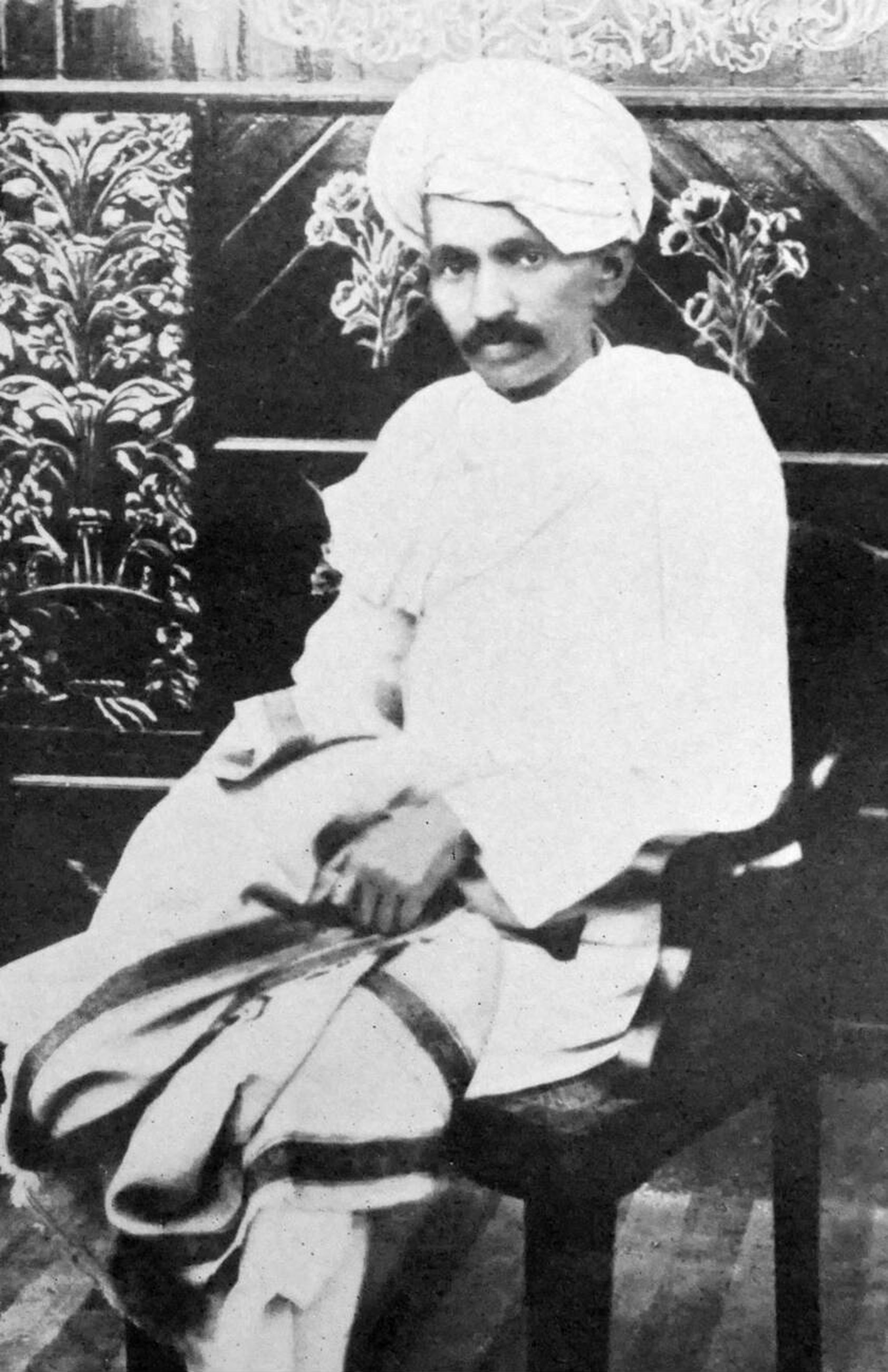 Mohandas K. Gandhi in 1918, when he led the Kheda Satyagraha against unjust taxation.